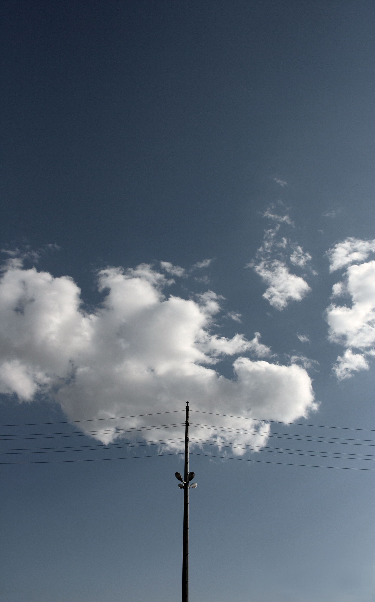 clouds and wires in tehran sky